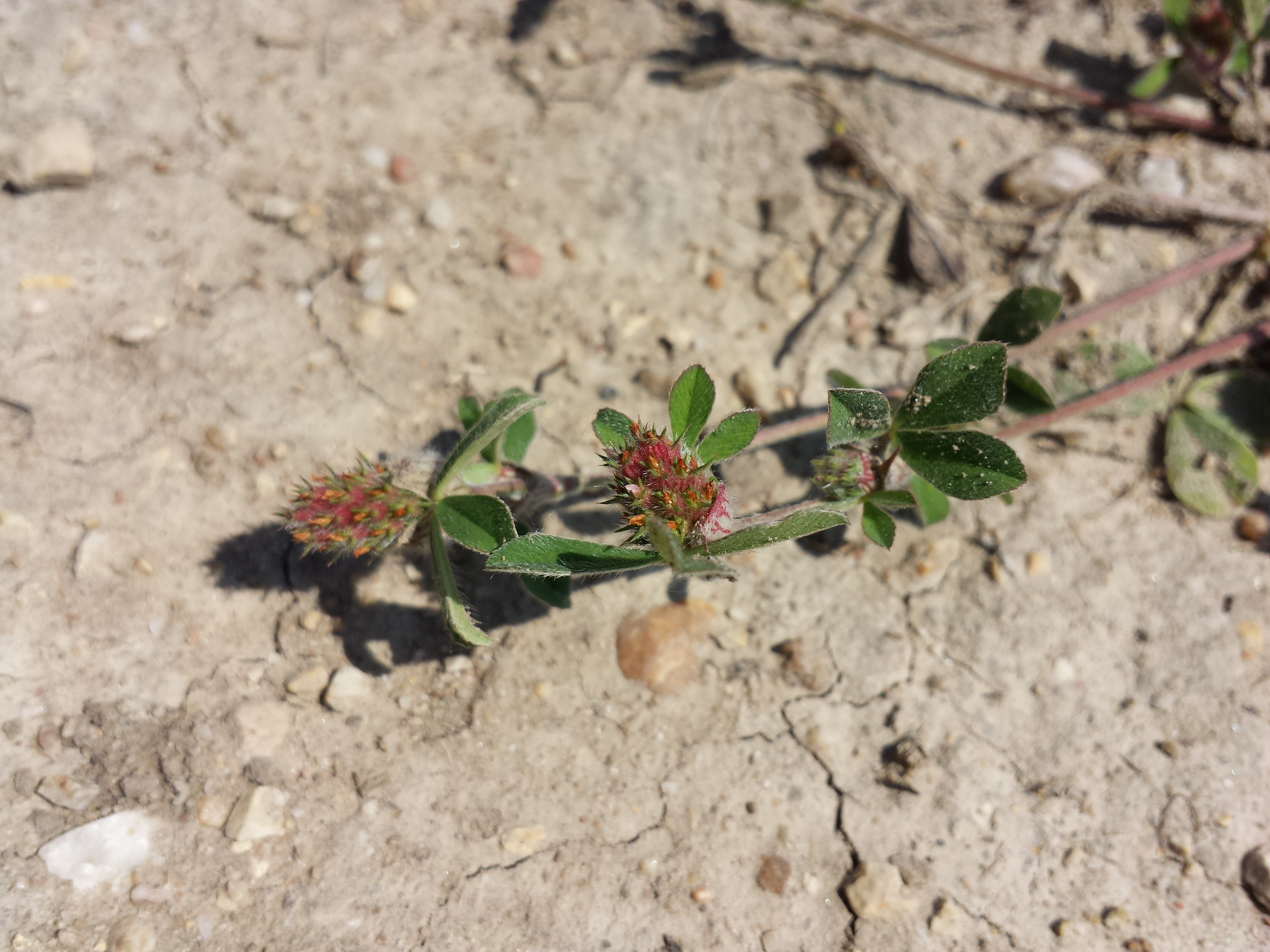 Habitus Taxonym: Trifolium striatum ss Fischer et al. EfÖLS 2008 ISBN 978-3-85474-187-9; det. Gergely Király 2015-06-07 Location: Dolomite hills to the south of Öskü, Veszprém County, Hungary - ca. 200 m a.s.l. Habitat: sandy area